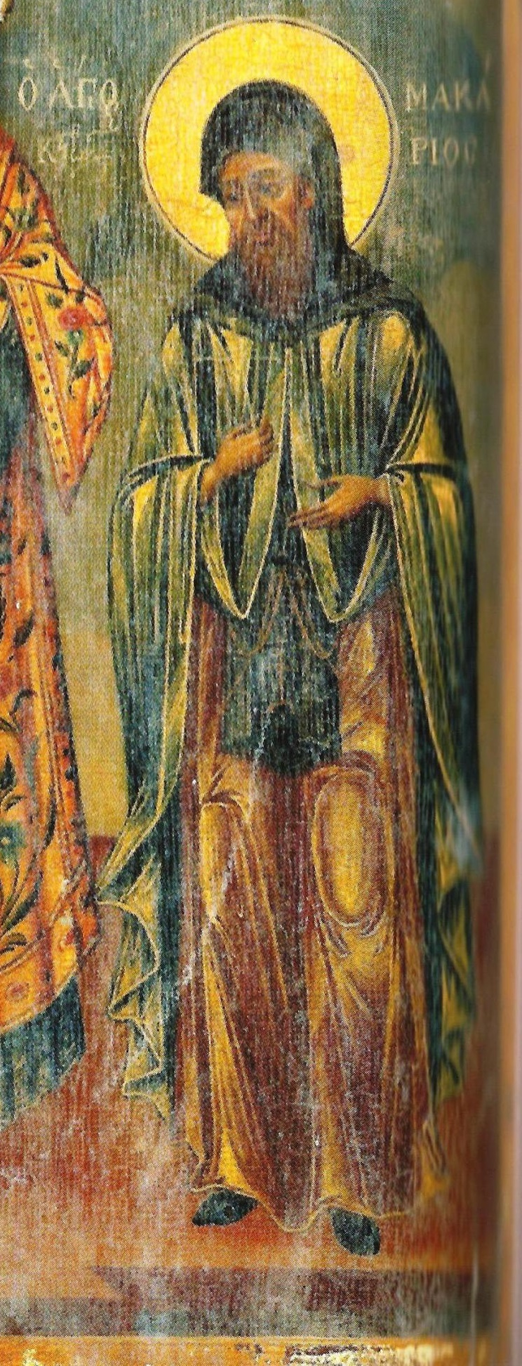 Nephon II of Constantinople Icon